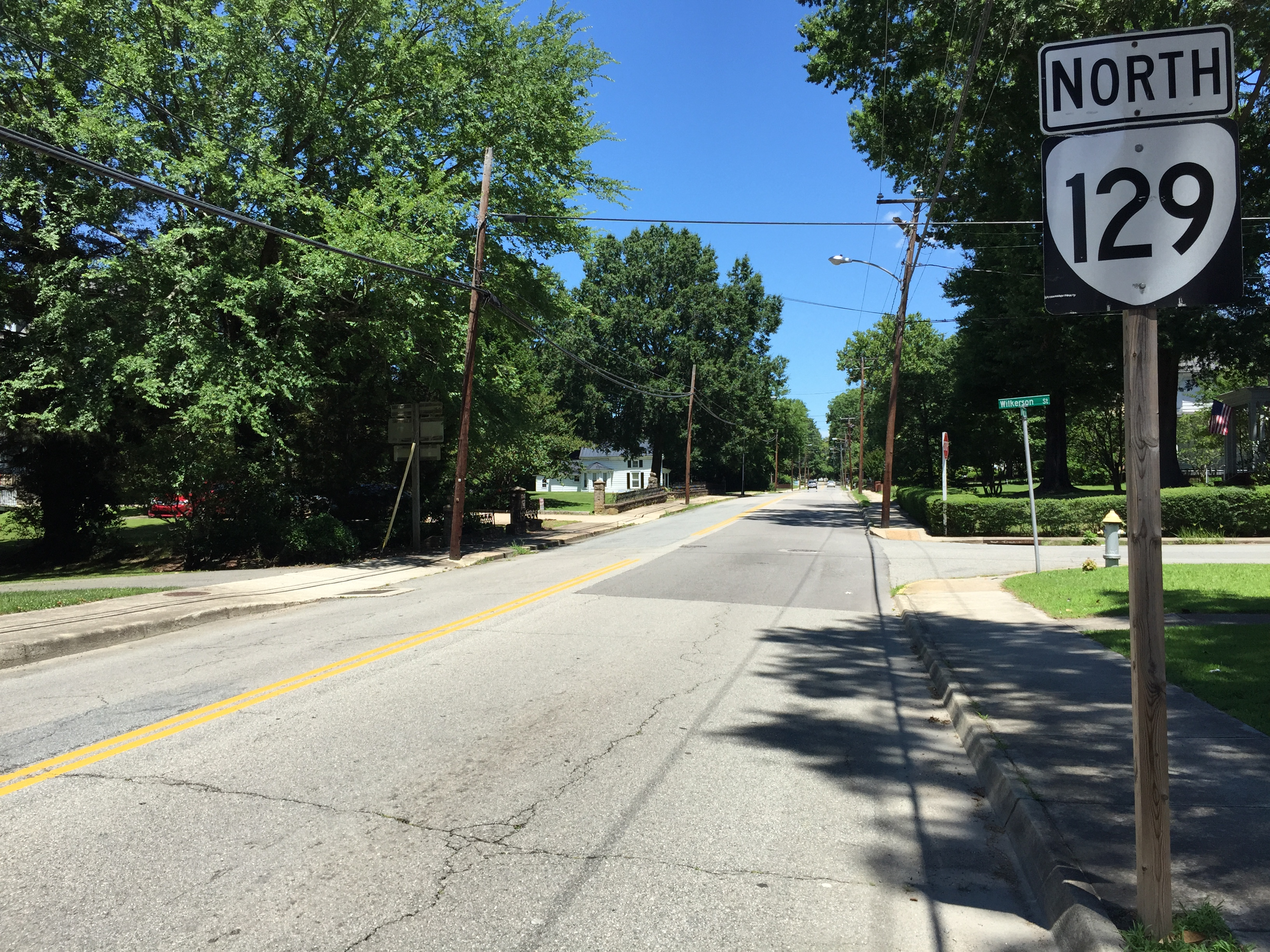 View north along Virginia State Route 129 (Main Street) at Wilkerson Street in South Boston, Halifax County, Virginia